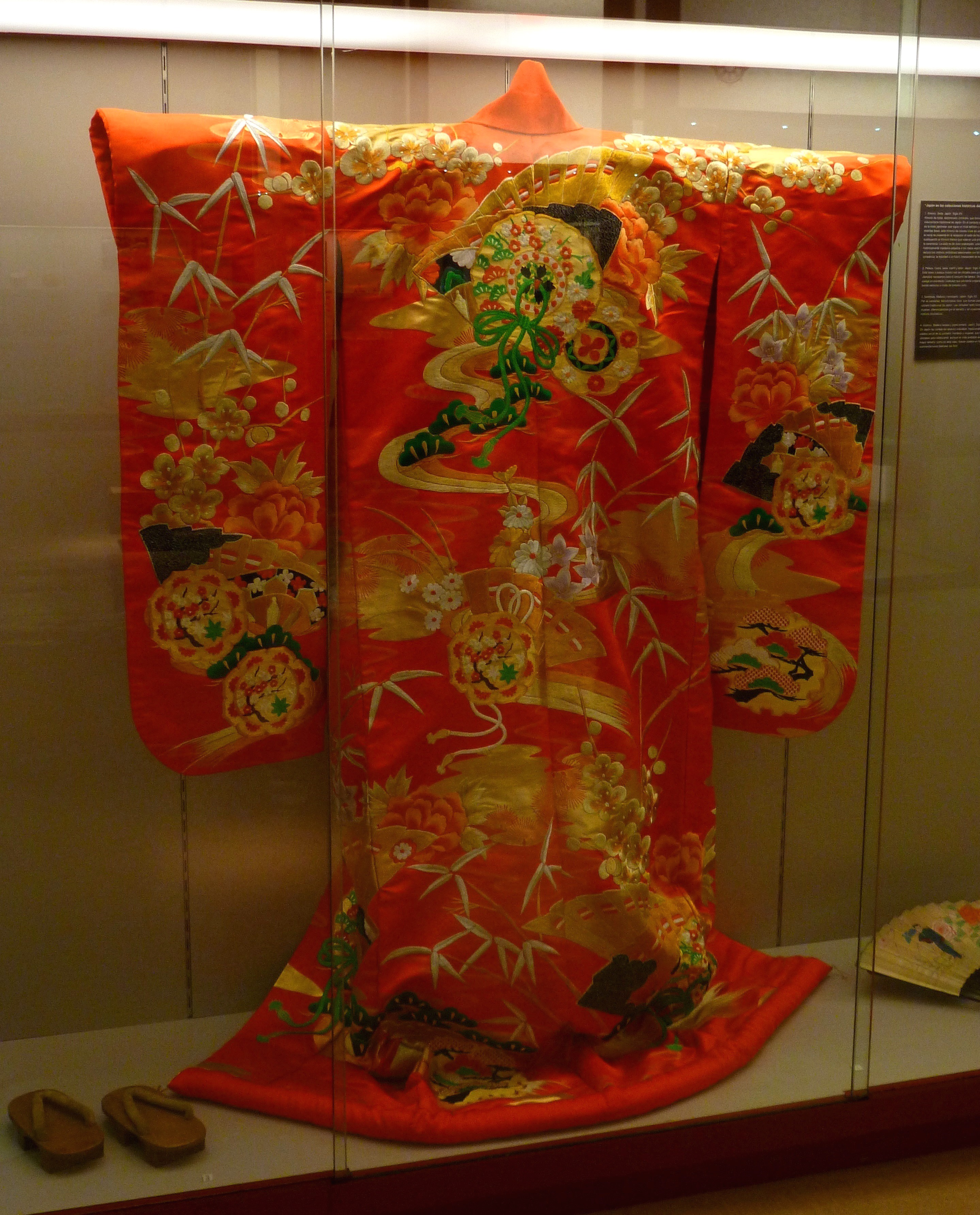 Uchikake (wedding kimono)